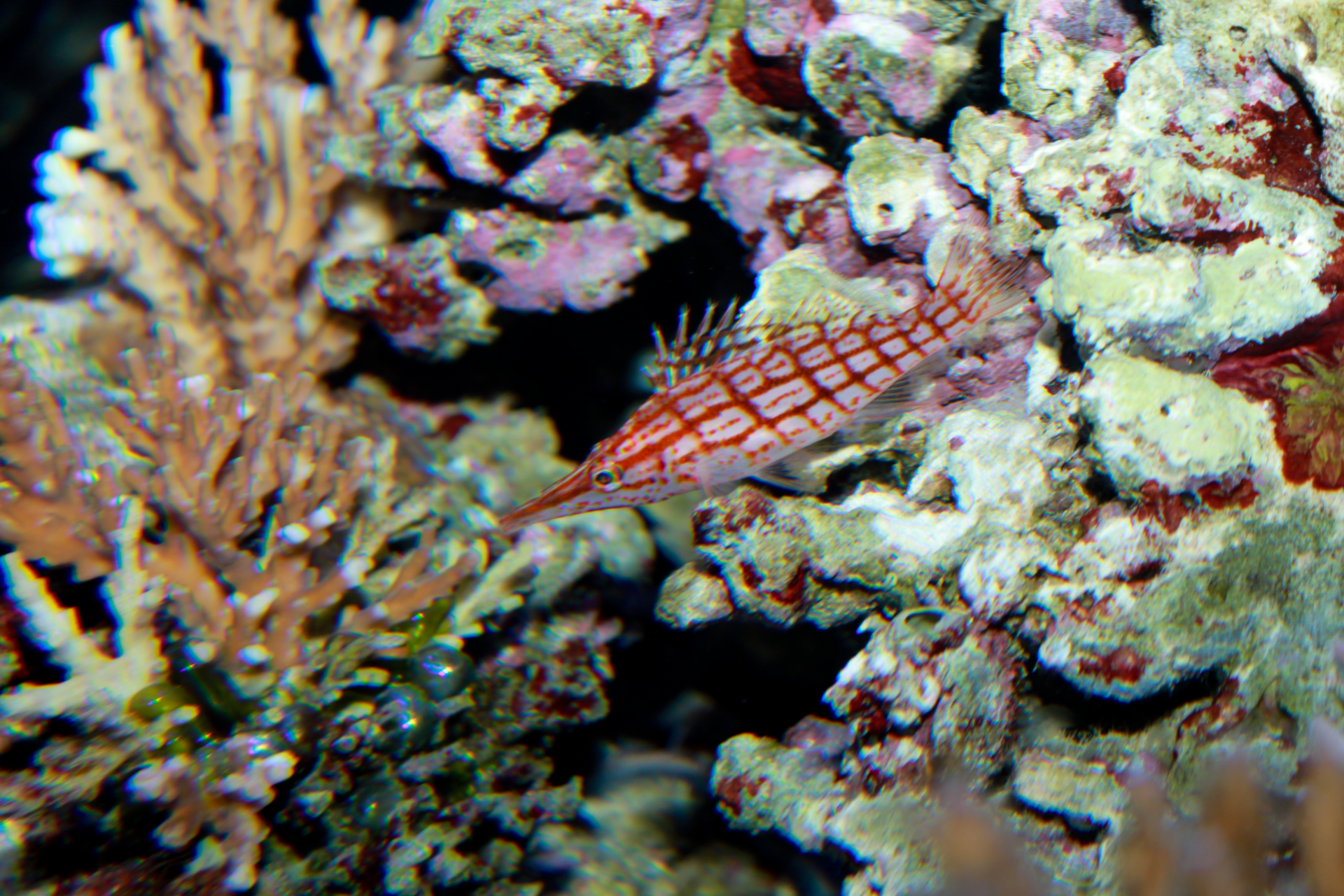 Long-Nose Hawkfish, Oxycirrhites typus